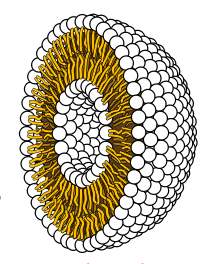 Cross-section through liposome. = water-attracting ends of molecules; = water-repellent ends.